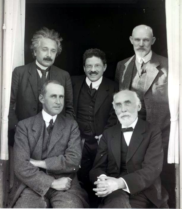 Einstein, Ehrenfest & De Sitter; Eddington & Lorentz. Location: office of W. de Sitter in Leiden (The Netherlands). Date: 26 Sept. 1923